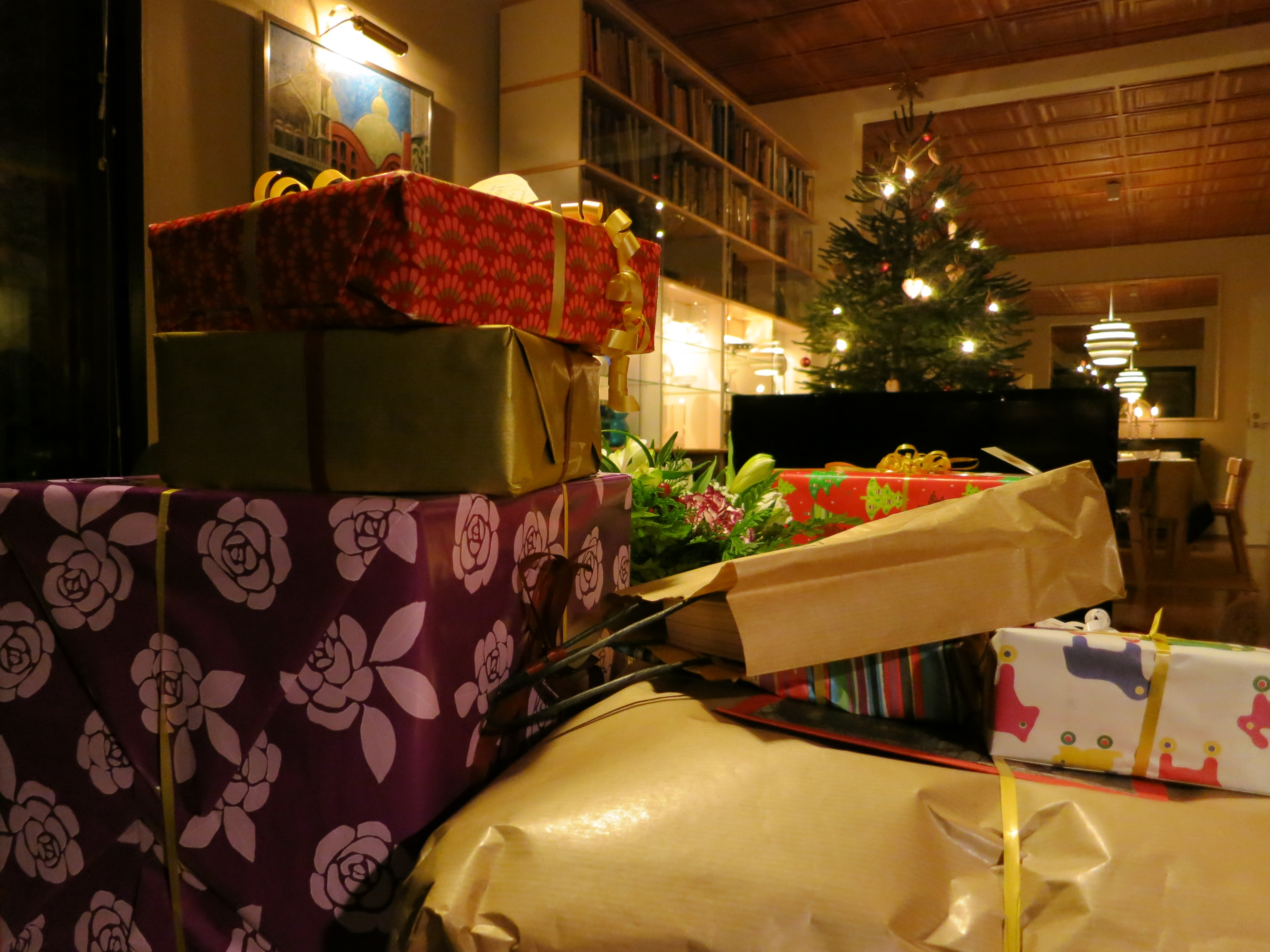 A Christmas gift is a gift given in celebration of Christmas. They are often exchanged on December 25th. Christmas Gift may also refer to: Christmas gift.